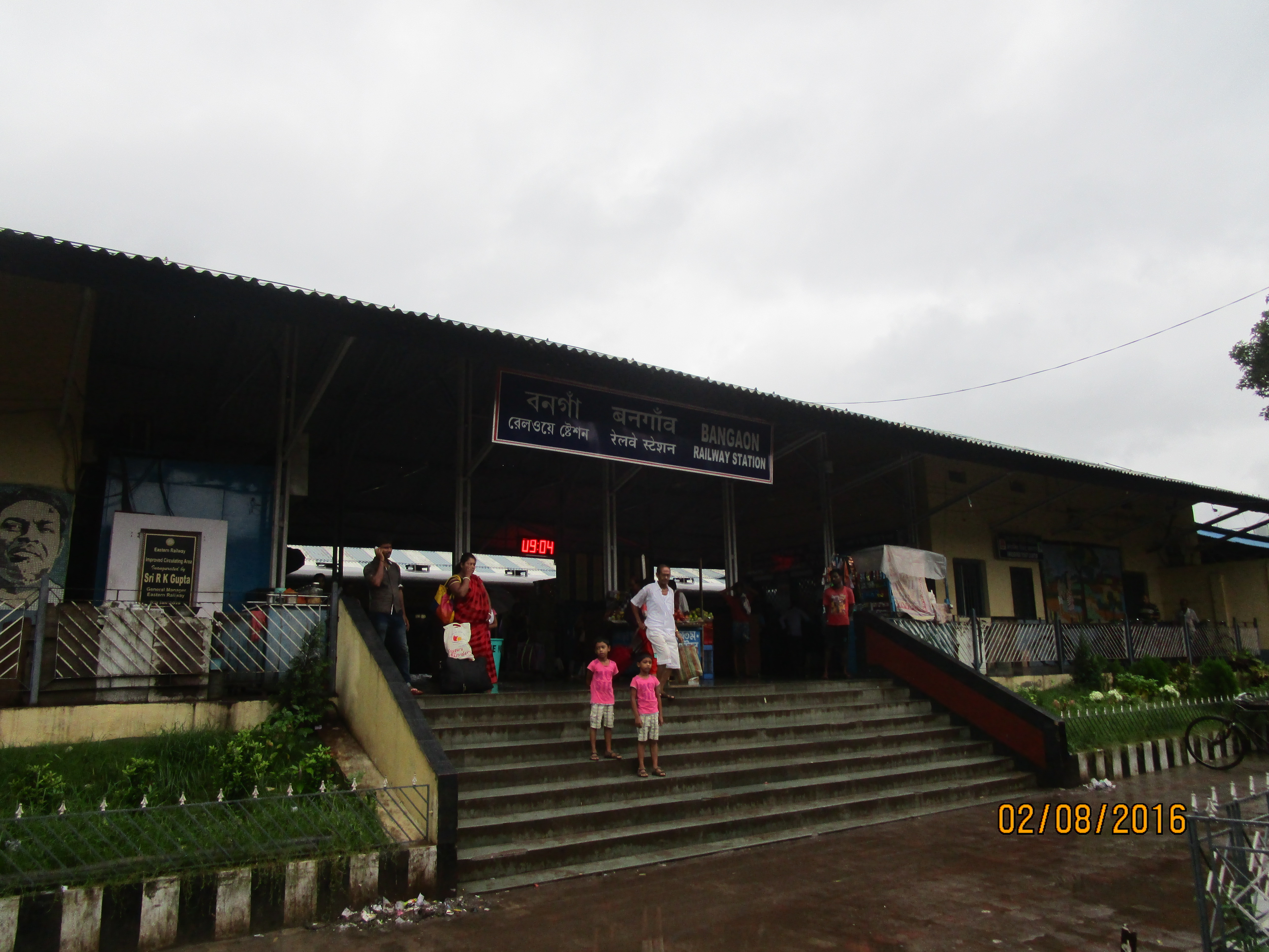 Bangaon Railway Station